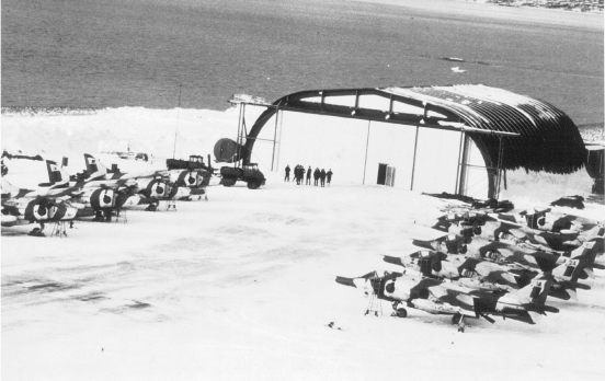 British Harrier fighters at Tromsø Airport during Alloy Express '82